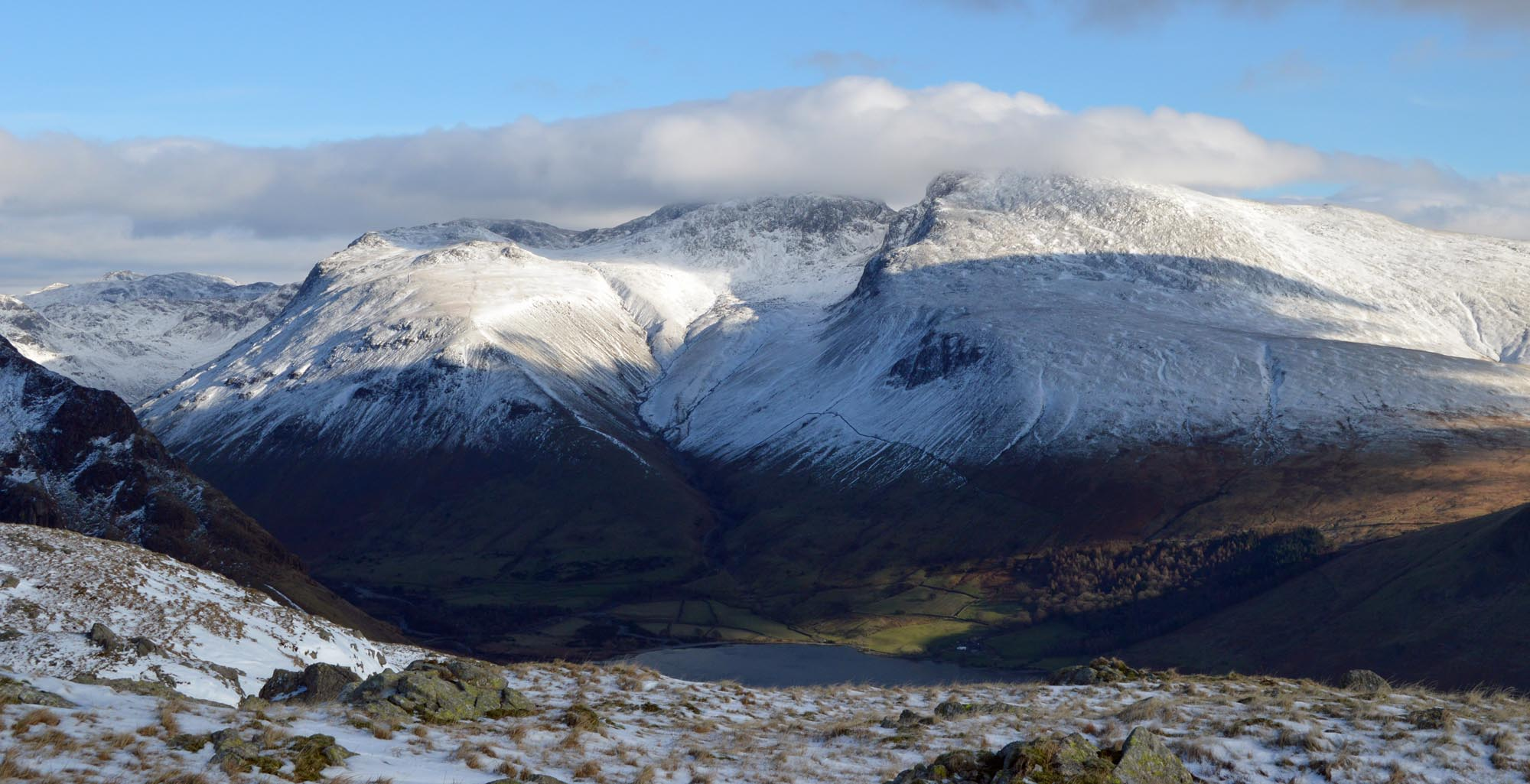 Scafell massif, Cumbria, in winter from Middle Fell